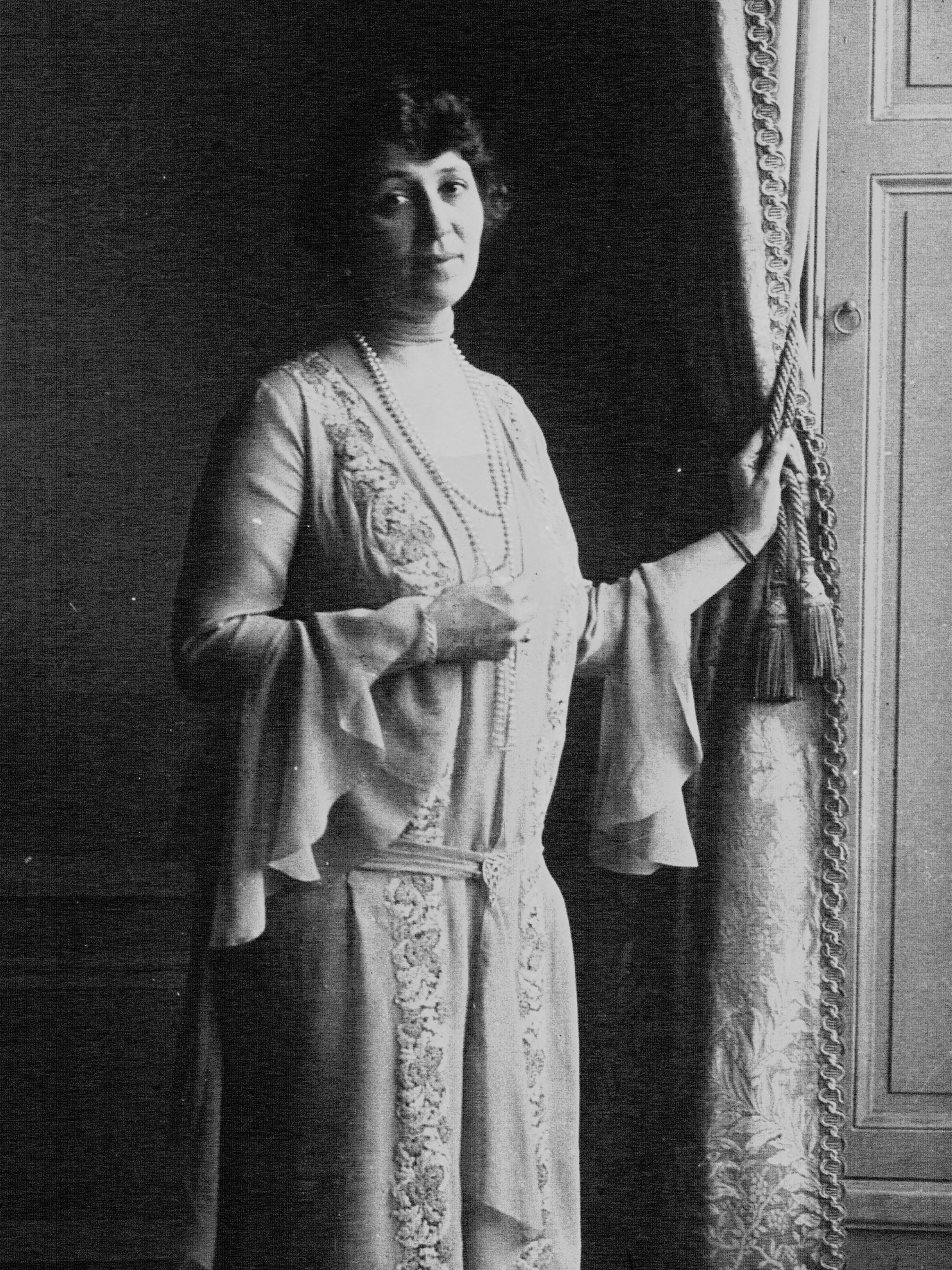 Swedish writer and translator Elsa Thulin (1887-1960).